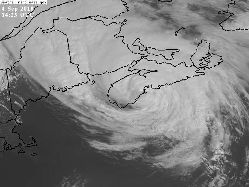 Satellite image of Tropical Storm Earl as it moves onshore in Nova Scotia, Canada on September 4, 2010. Sustained winds at the time of this image are around 70 miles per hour (110 kilometres per hour) with higher gusts.